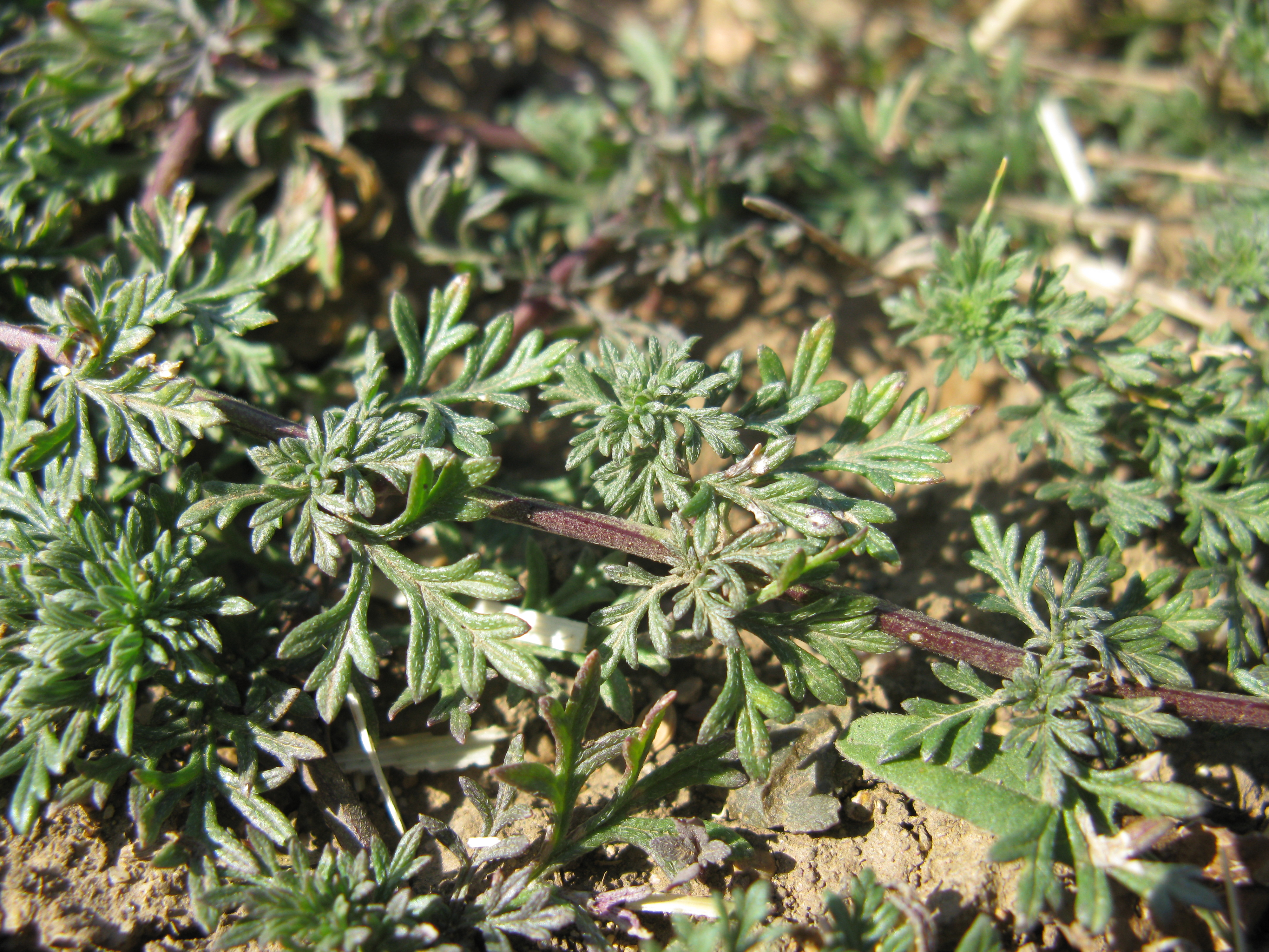 Introduced, cool-season, perennial herb to 60 cm tall. Stem and branches are procumbent, decumbent or erect, quadrangular and moderately hairy. Leaves are shortly petiolate or sessile, triangular in outline, shortly hairy, becoming hairless with age, Lower leaves are variously acutely serrate, 1- or 2-pinnatifid, mostly 3-pinnatifid, 2–7 cm long and ultimate segments uniformly linear to subulate. Upper leaves are incised to sub-entire and smaller than lower leaves. Flowerheads are terminal and head-like. Peduncle, bracts and calyx are strongly glandular. Calyx is 5-toothed. Corolla is tubular, 5-lobed and white to violet or purple. Flowering is from spring to mid-summer. A native of South America, it is found in disturbed areas such as roasides.